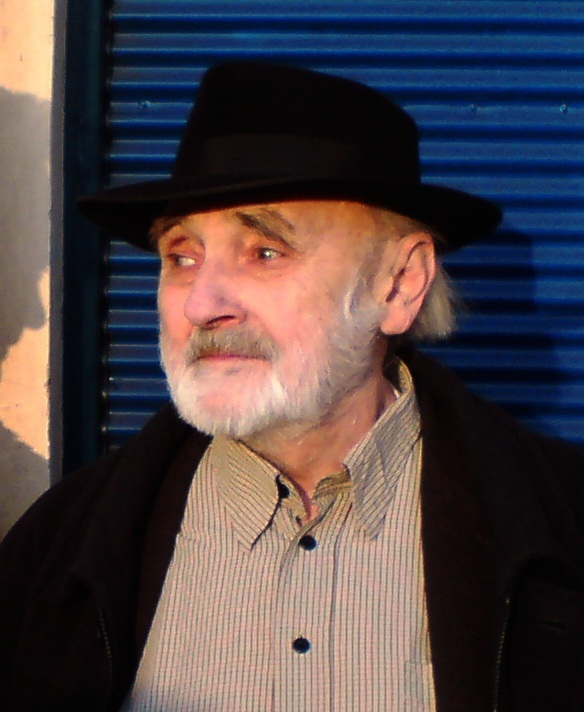 Zbynek Hejda, Czech poet